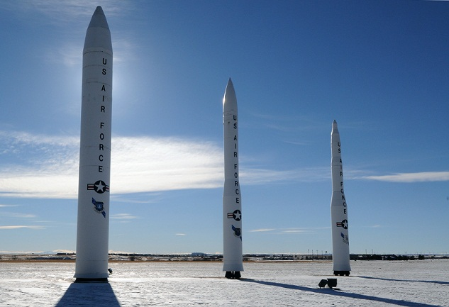 Peacekeeper, Minuteman I and Minuteman III ICBMs on display near F.E. Warren Air Force Base, Wyo., Gate 1 Feb. 11, 2011. (U.S. Air Force photo by R.J. Oriez)